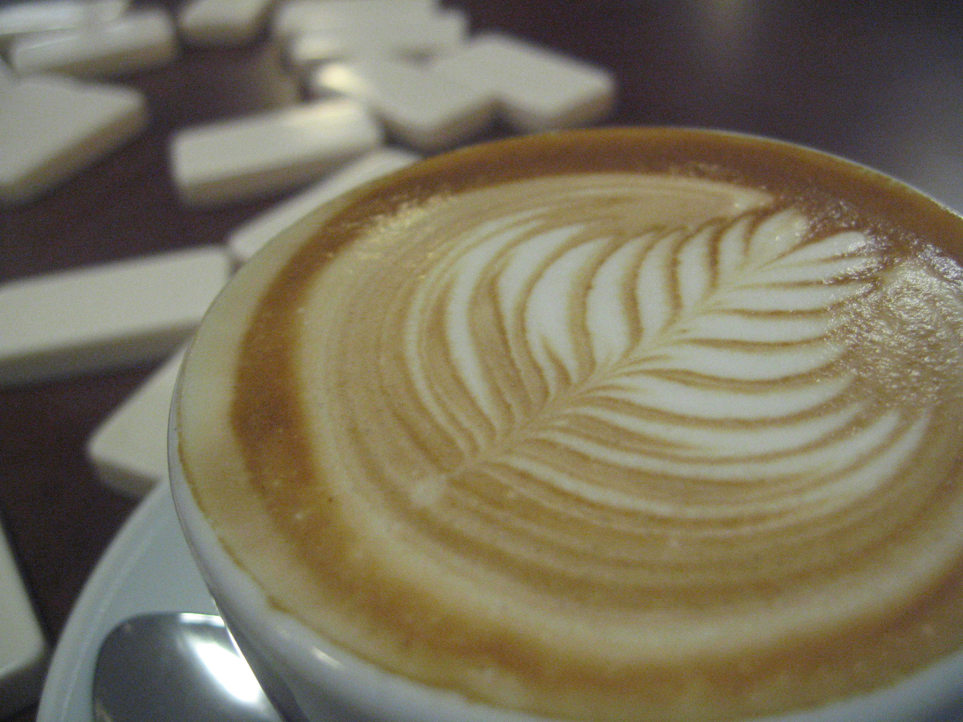 Photo of a latte from Espresso Vivace in Seattle.